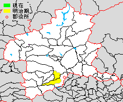 Map showing extent of former Tago District, Gunma, Japan